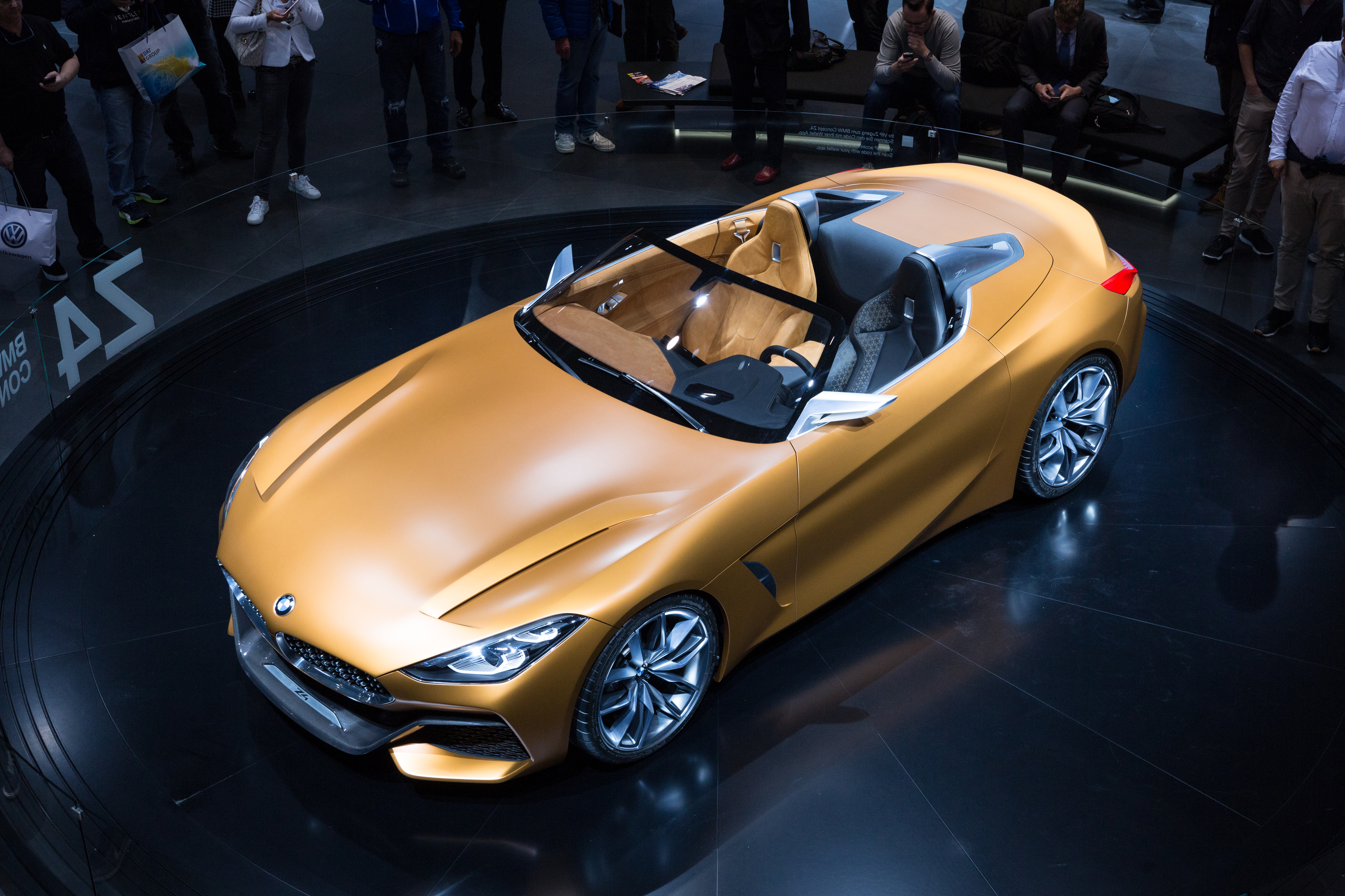 BMW Concept Z4